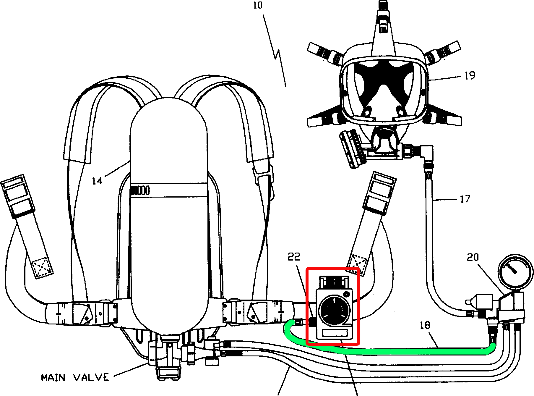 PASS (Personal Alert Safety System) device (red square) integrated into an SCBA unit so the PASS is automatically activated when the SCBA is (green line).